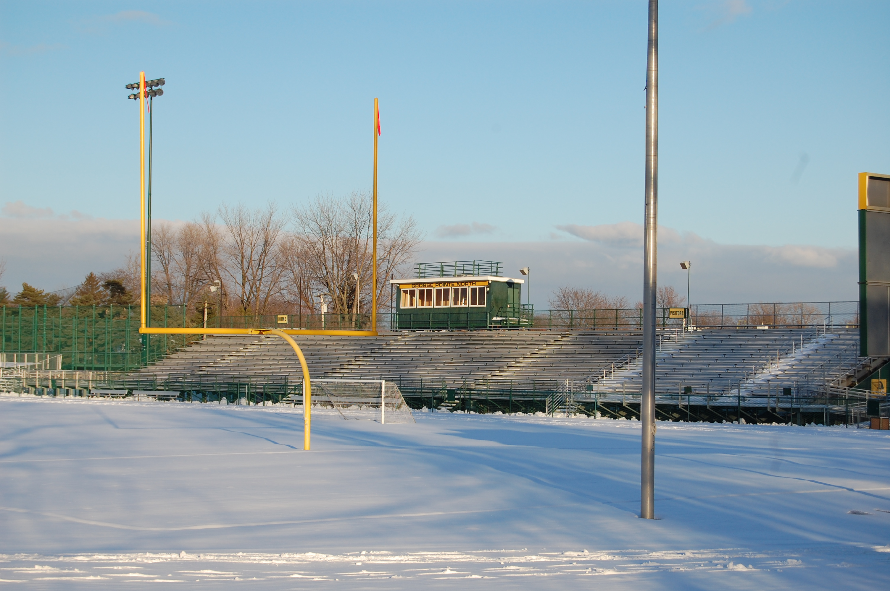 The football bleachers at Grosse Pointe North High School